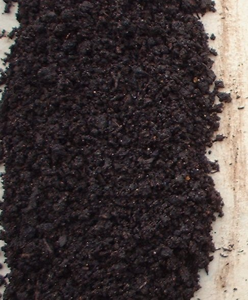 Freshly harvested worm castings